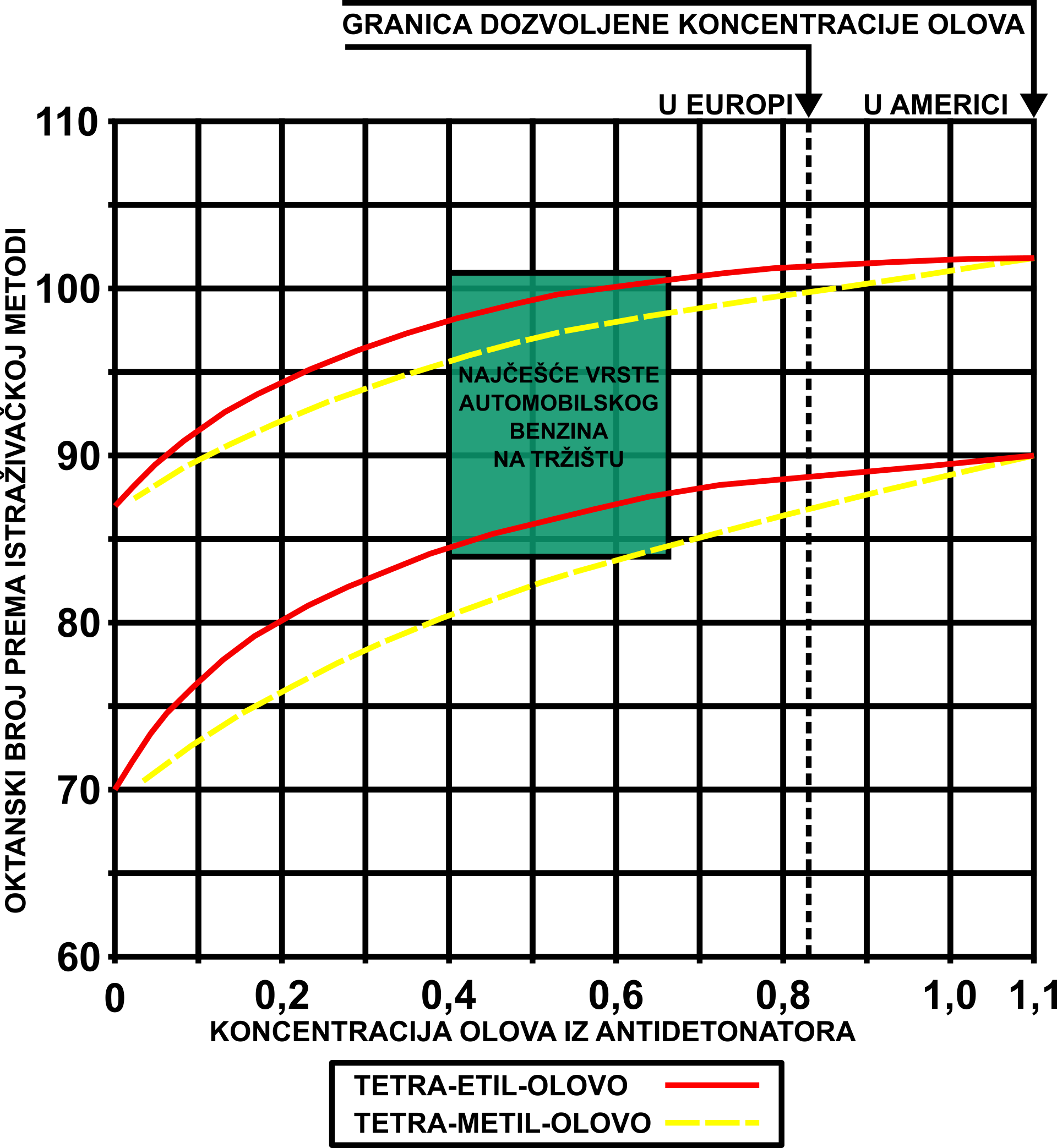 Influence of antidetonators on octane number of gasoline